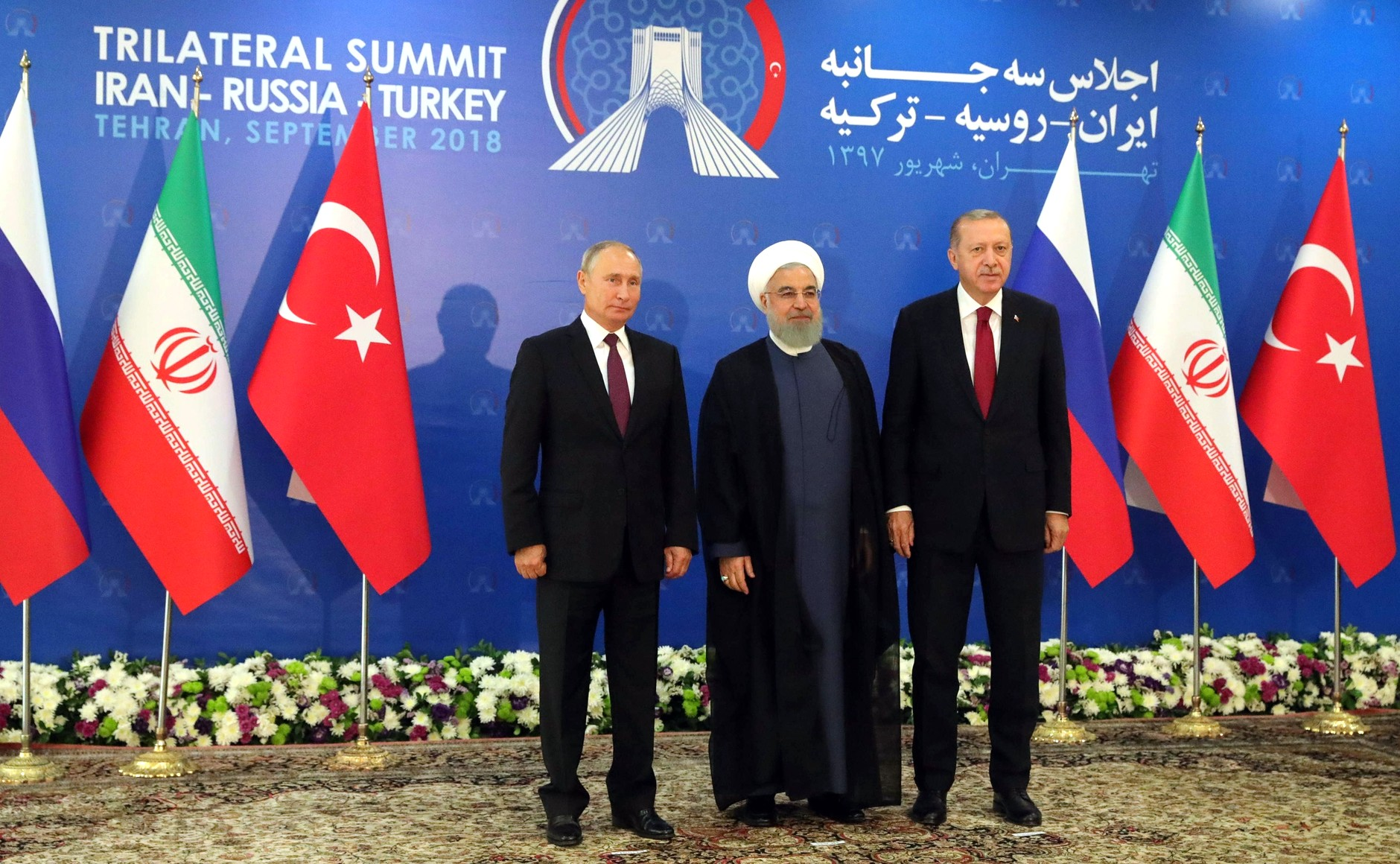 Trilateral Iran-Russia-Turkey Summit September 2018 in Tehran